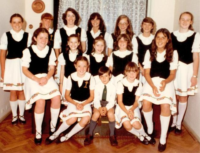 Pupils from an Irish dance school in Argentina